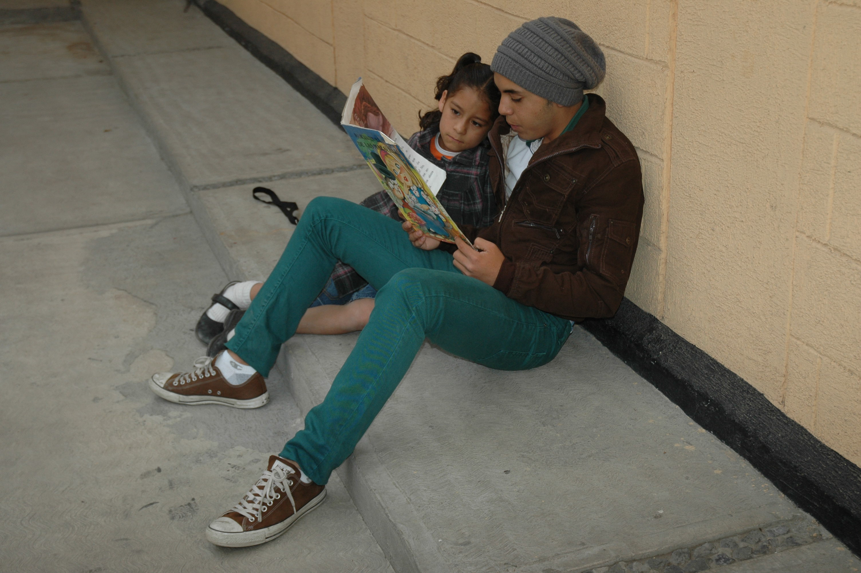 Visit from ITESM Campus Ciudad de México students to a foster home for girls (Casa Hogar de las Niñas) in Tlahuac, Mexico City